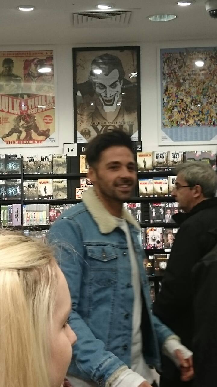 Ben Haenow at an album signing at HMV in Braehead, Renfrewshire, Scotland on 14 November 2015